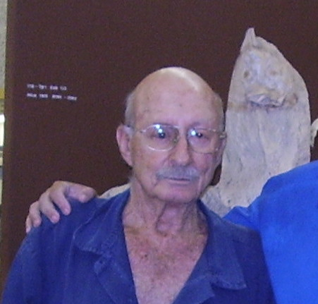 The Prehistoric man museum in Kibbutz Ma'ayan Baruch